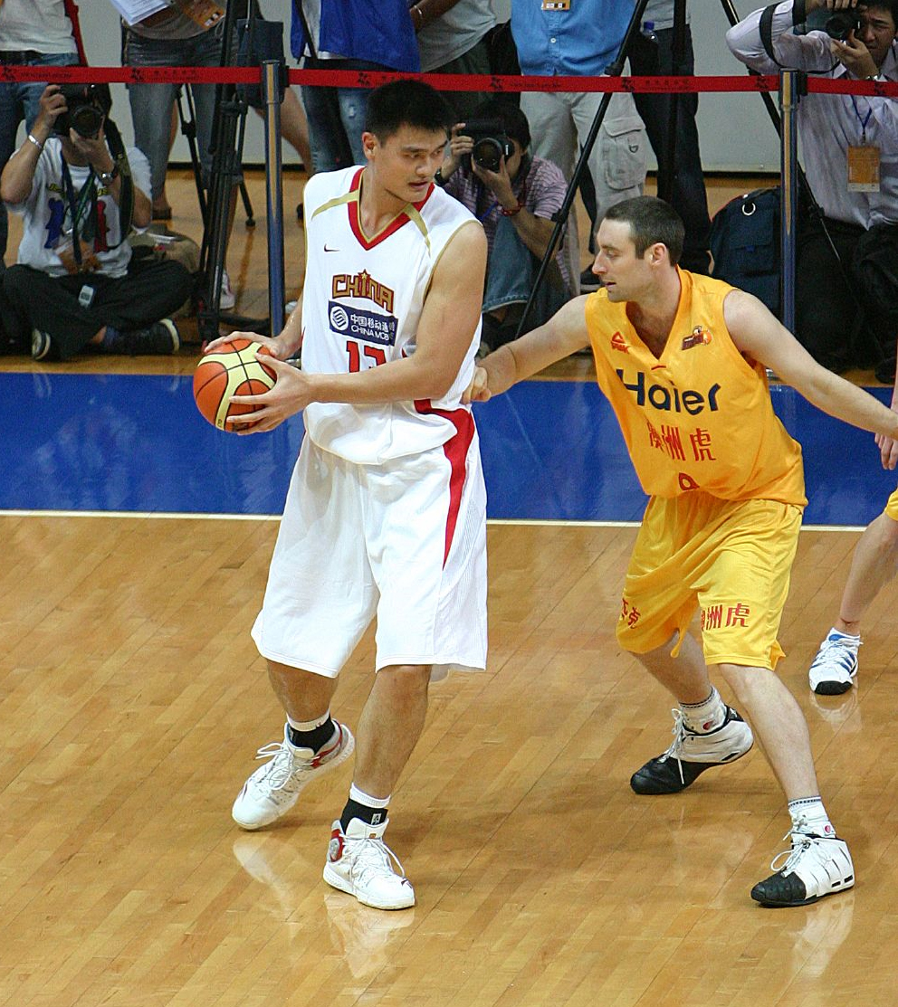 Yao Ming, playing for the Chinese national basketball team